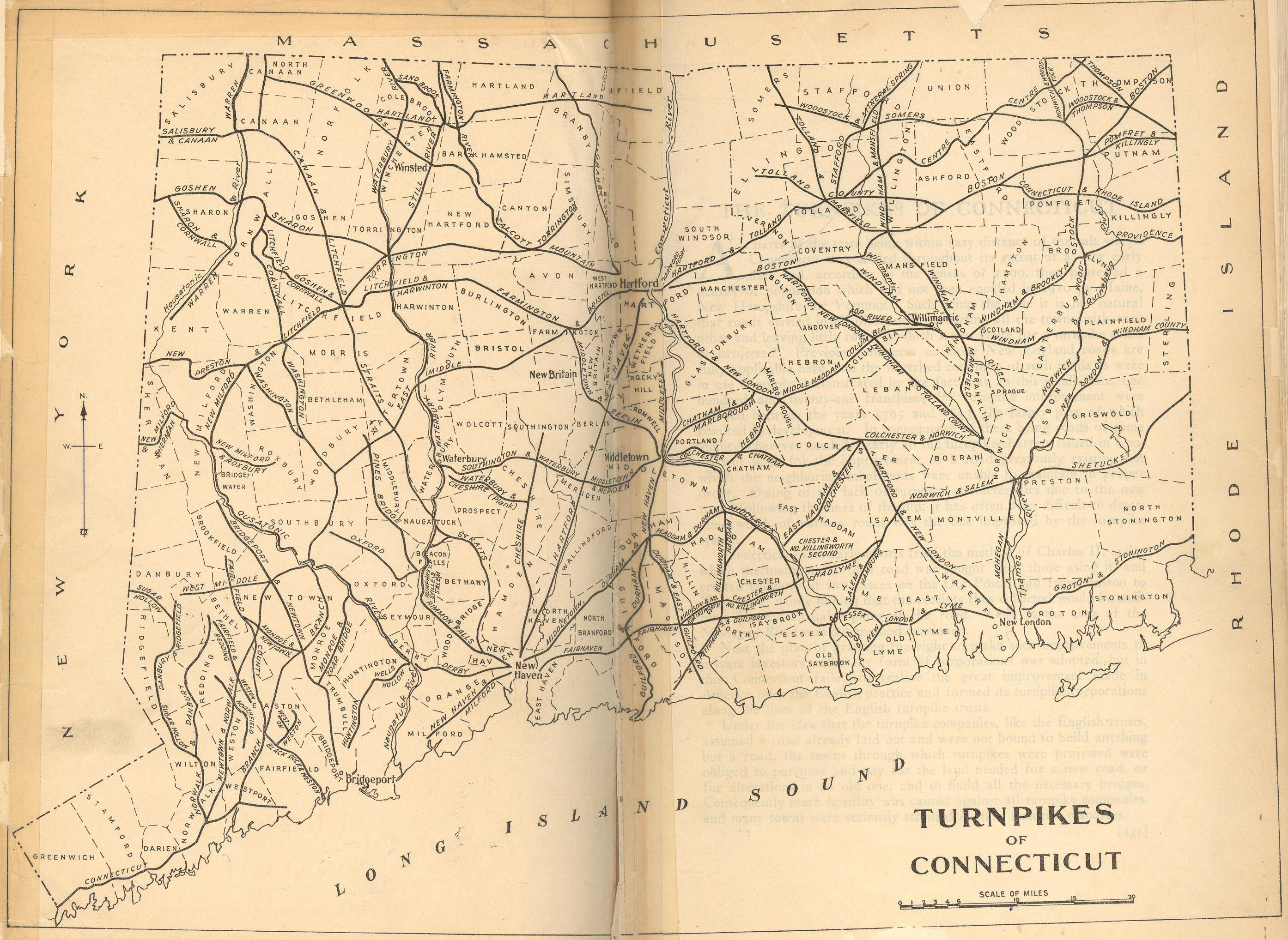 Map showing turnpikes of Connecticut